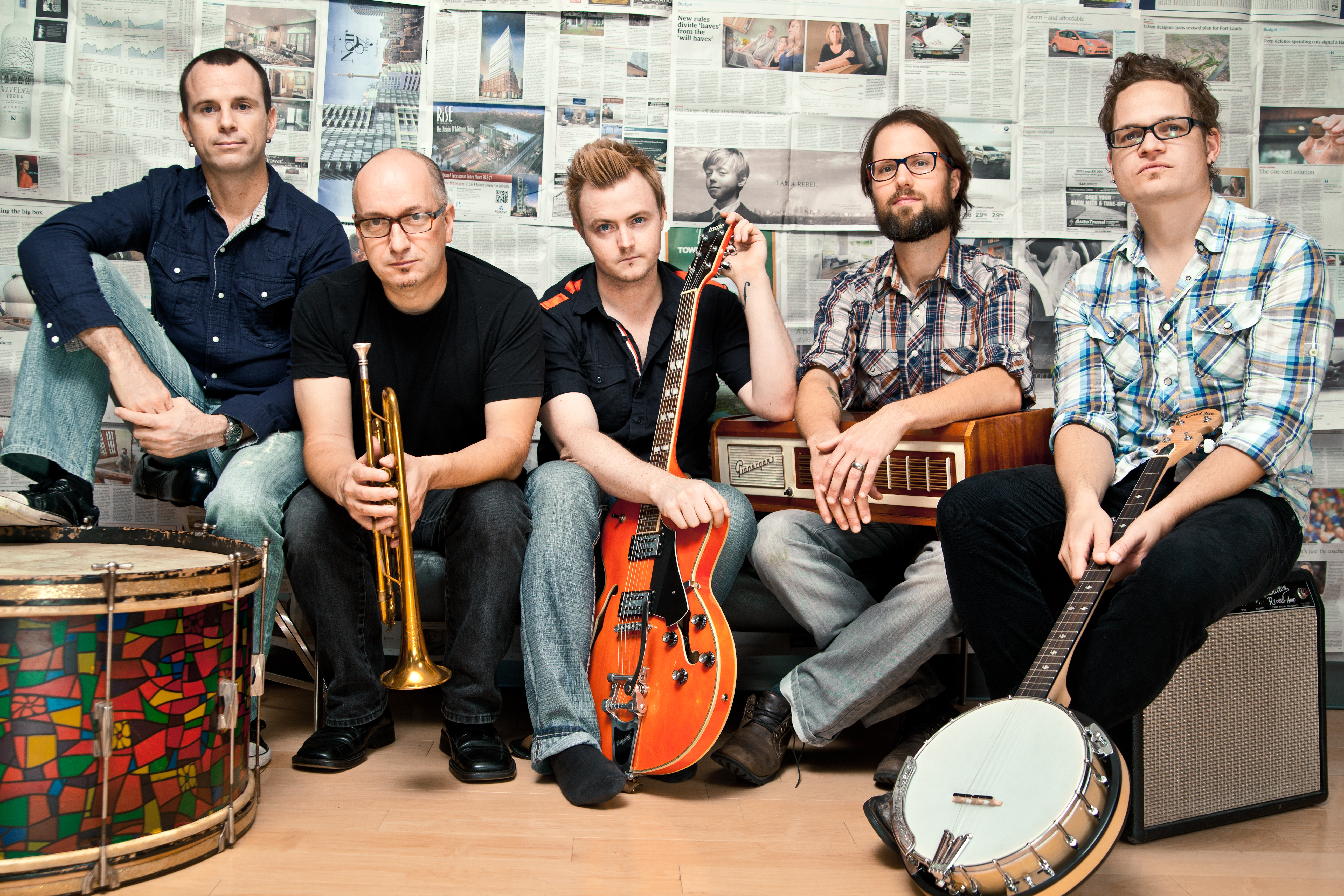 The members of Enter The Haggis, taken at Saint Claire Recording Company in Lexington, KY.